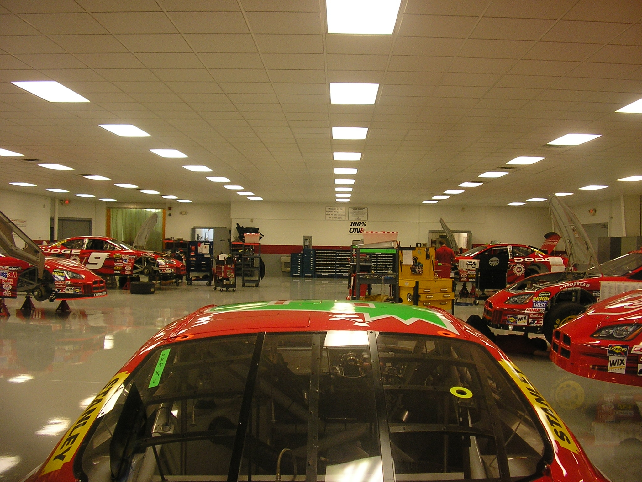 Garage of Evernham Motorsports' NASCAR team, as taken on July 7, 2005. Seen in the picture is the work on the #9 (driven by Kasey Kahne), #19 (driven by Jeremy Mayfield) and #91 Nextel cup cars, makes are all Dodge, respectively.